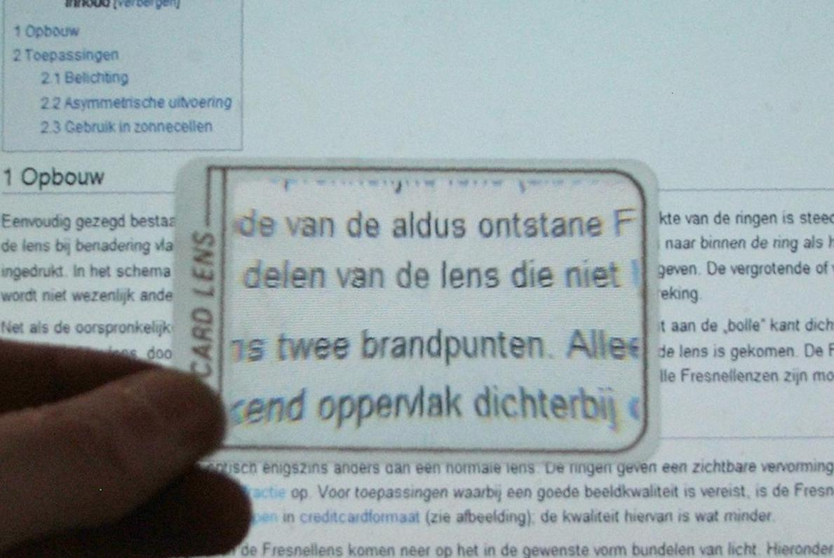 Creditcard-size Fresnel magnifier